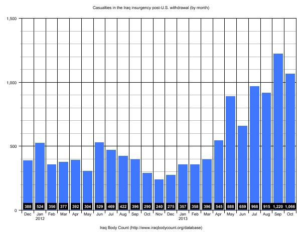 A graph of the monthly casualties according to the Iraq Body Count database as of June 1, 2013. ( Numbers include civilians, as well as police and army forces, but do not include insurgents.